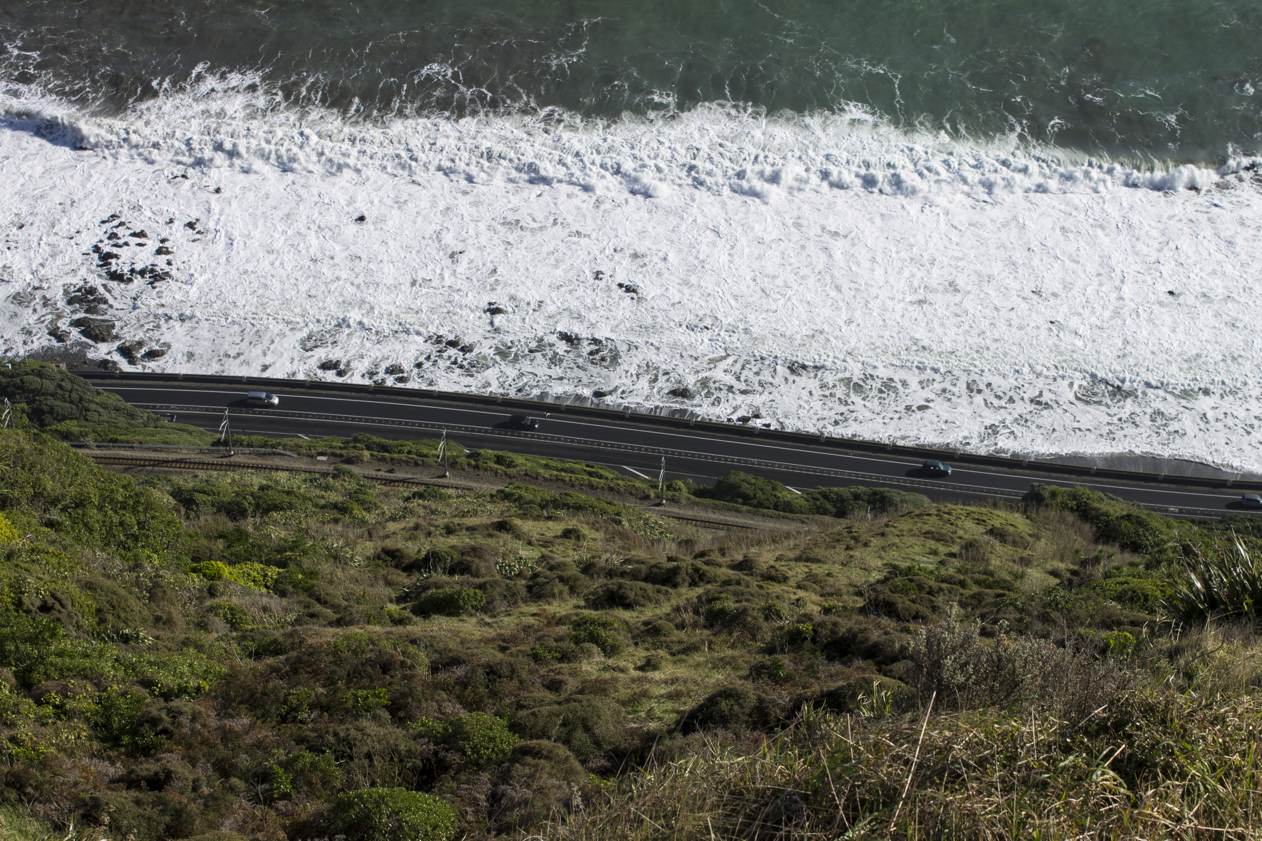 Centennial Highway and the railway above it taken from the side of Paekakariki Hill